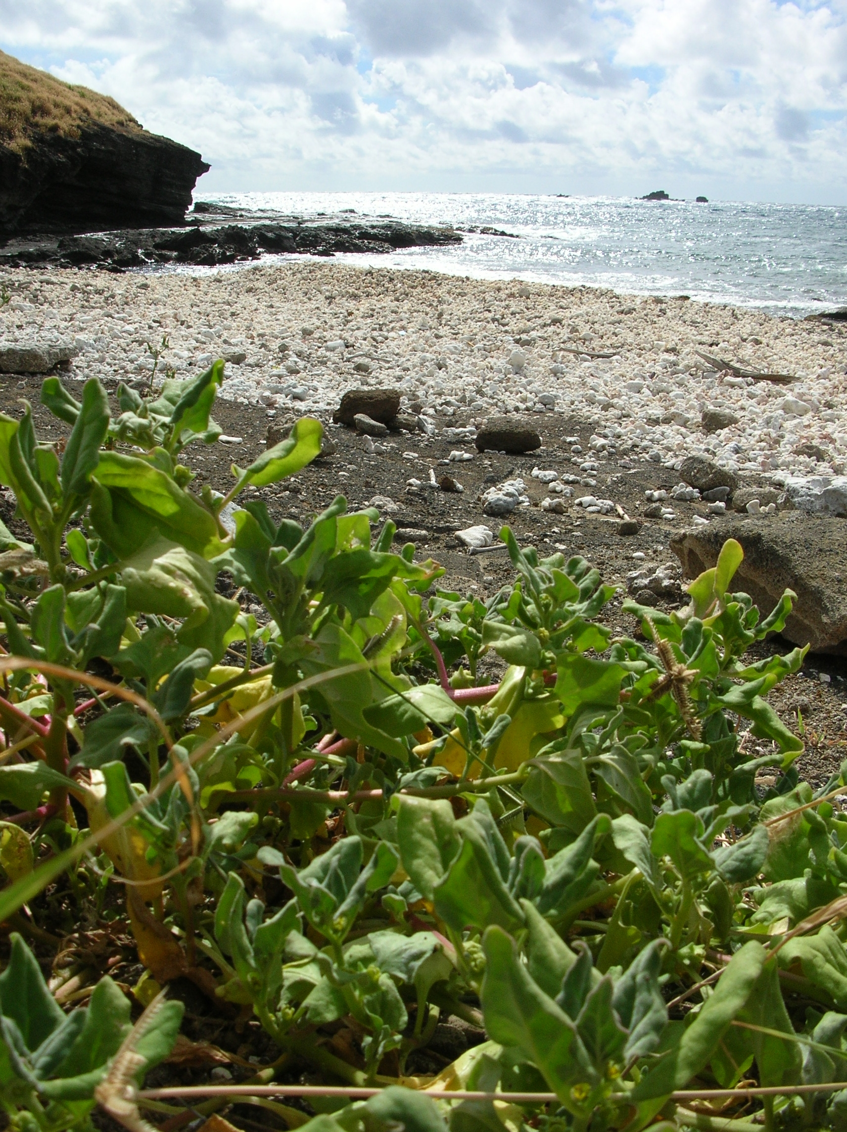 Tetragonia tetragonioides (habit). Location: Oahu, Manana